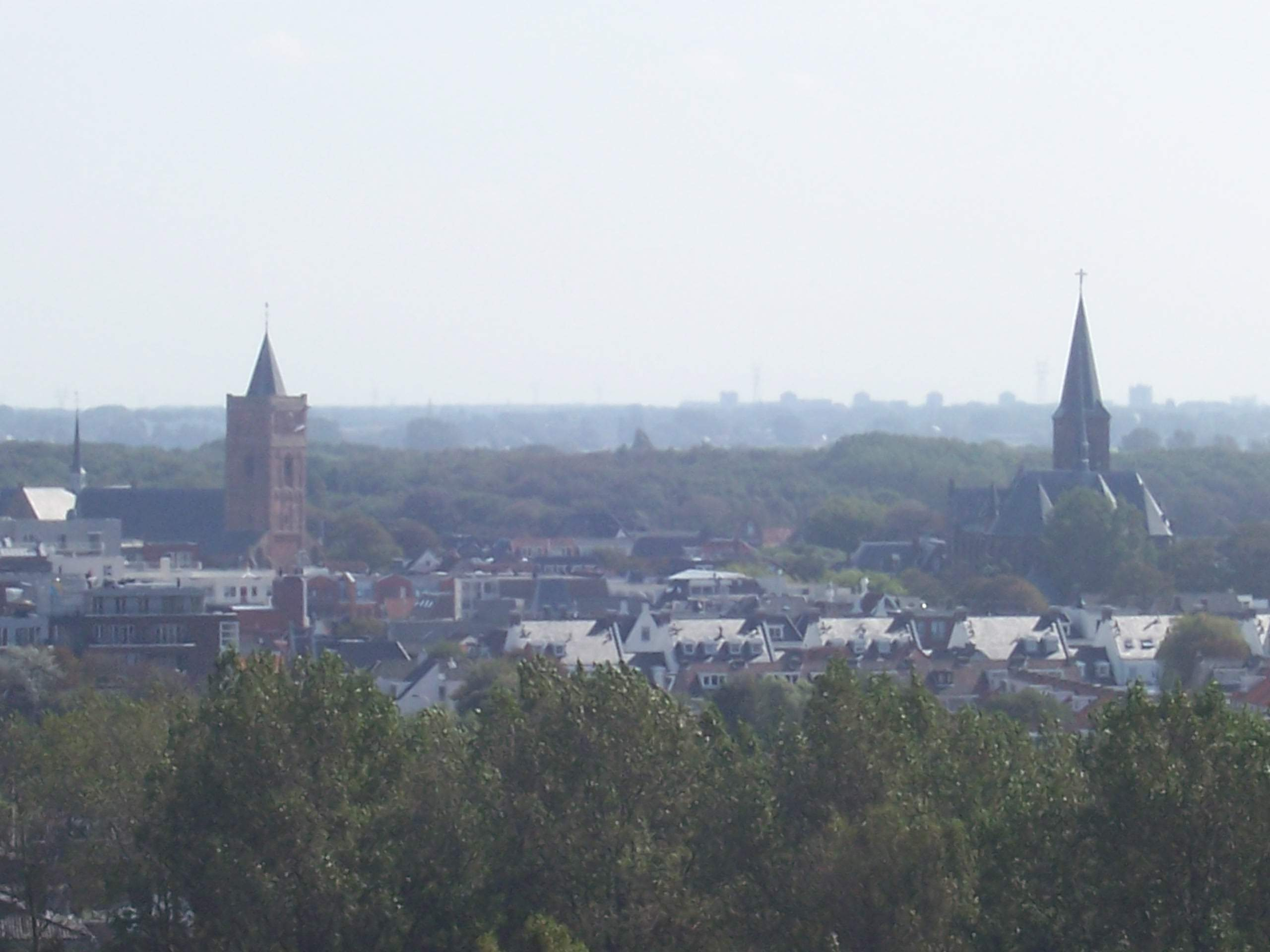 View over Noordwijk-Binnen and two church towers. Taken from the water tower in Noordwijk aan Zee. No better quality available (long distance)